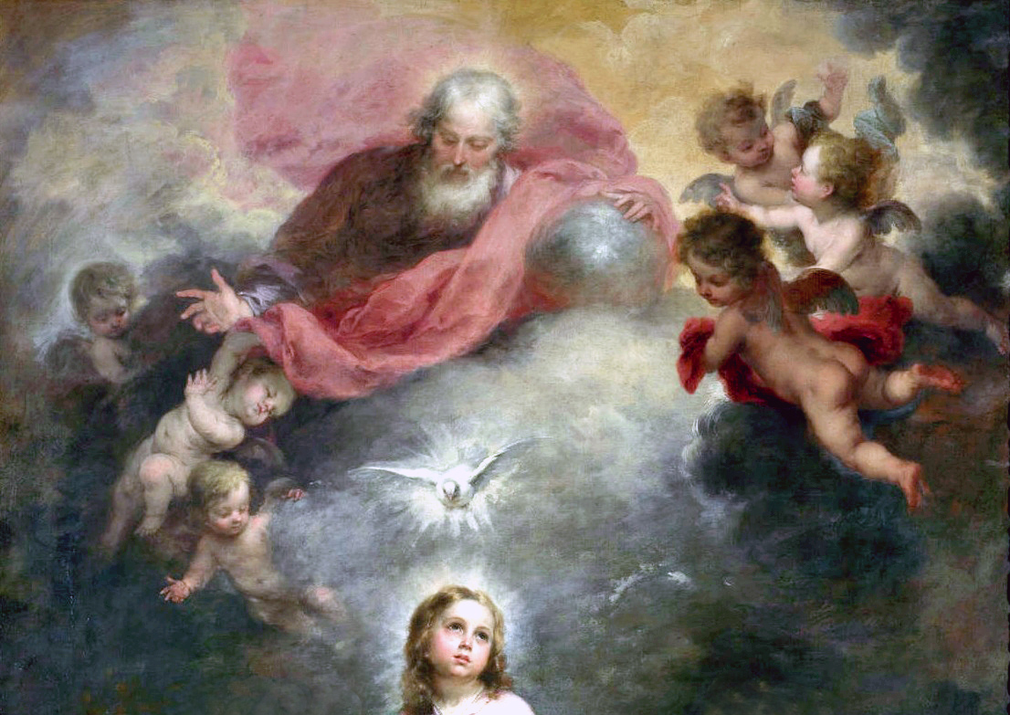 1675-82, Bartolomé Esteban Murillo